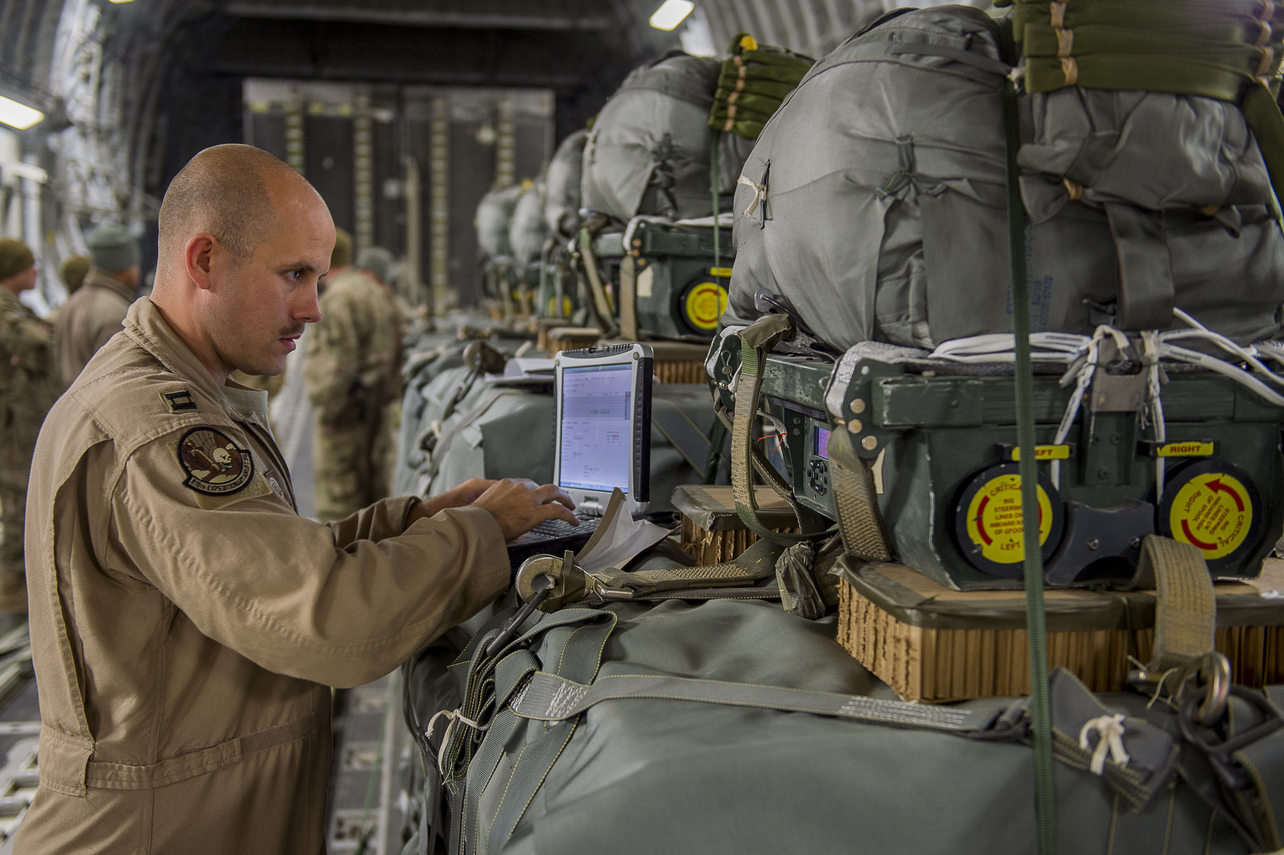 U.S. Air Force Capt. James Dolson, 816th Expeditionary Airlift Squadron pilot, prepares a Joint Precision Airdrop System on a C-17 Globemaster III for an airdrop mission over Afghanistan, Jan. 10. JPADS is an American military airdrop system which uses the GPS, steerable parachutes, and an onboard computer to steer loads to a designated point of impact on a drop zone. Dolson is deployed from the 14th Airlift Squadron at Joint Base Charleston, S.C. (U.S. Air Force photo/Tech. Sgt. Dennis J. Henry Jr.)